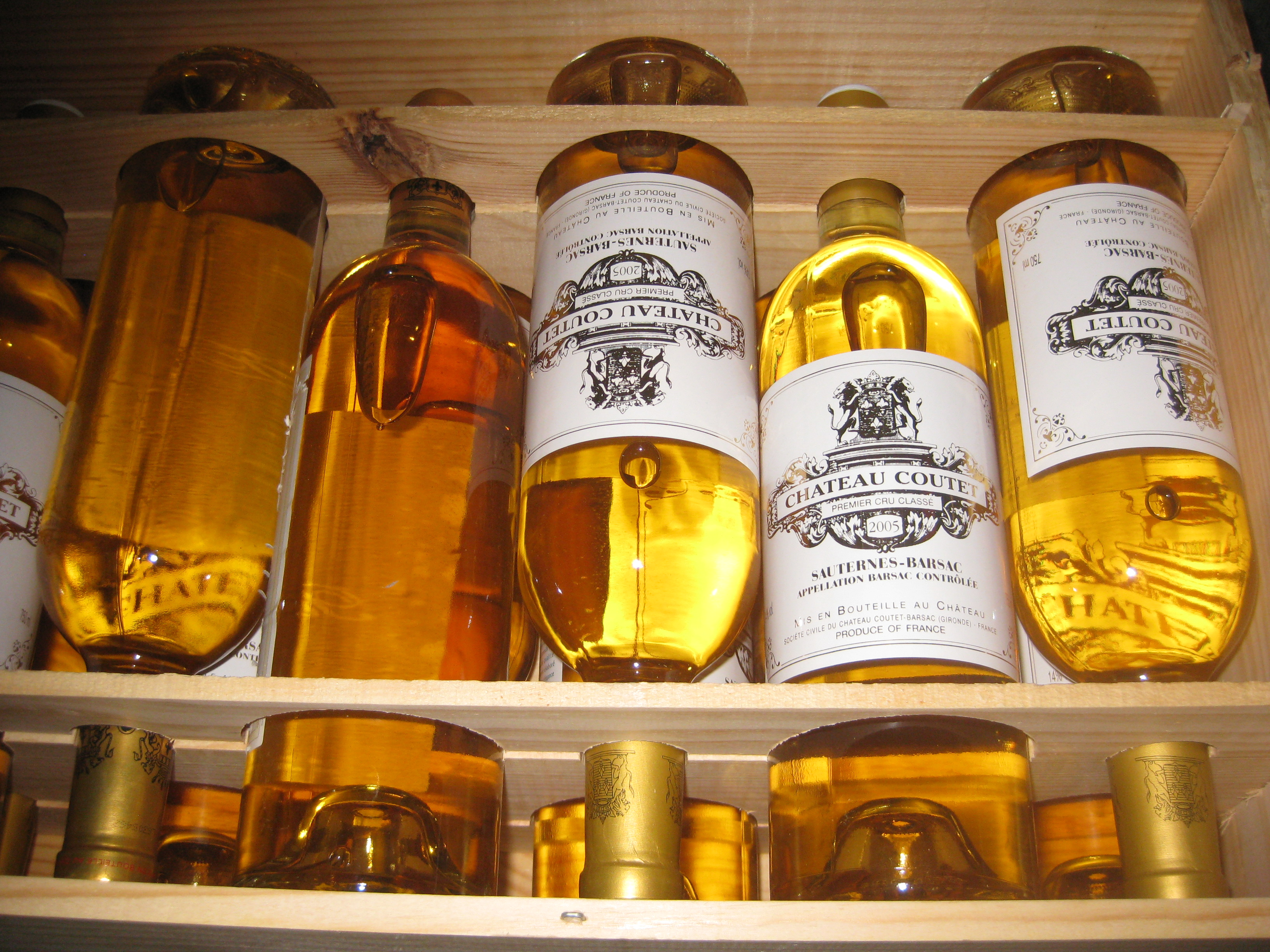 Case of Chateau Coutet Sauterne wine